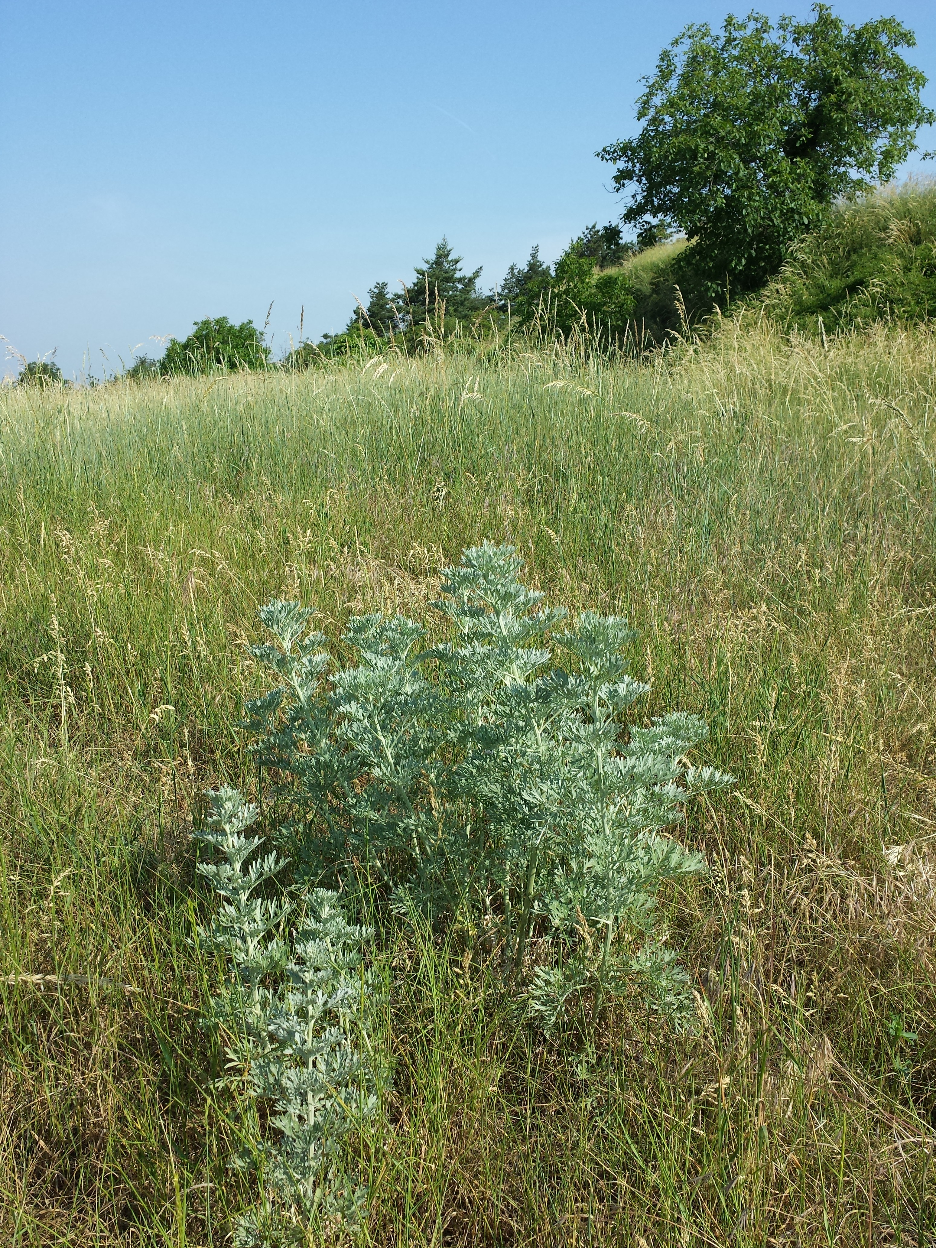 Habitus Taxonym: Artemisia absinthium ss Fischer et al. EfÖLS 2008 ISBN 978-3-85474-187-9 Location: Kranberg bei Ziersdorf, district Hollabrunn, Lower Austria - ca. 350 m a.s.l. Habitat: semi-dry grassland